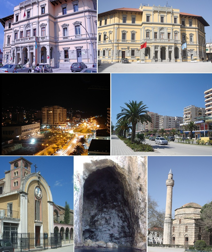 From left to right, top to bottom, Municipal Building, City Hall, Vlorë at night, Vlorë shoreline, Old Catholic church, Sea caves, Muradi Mosque.